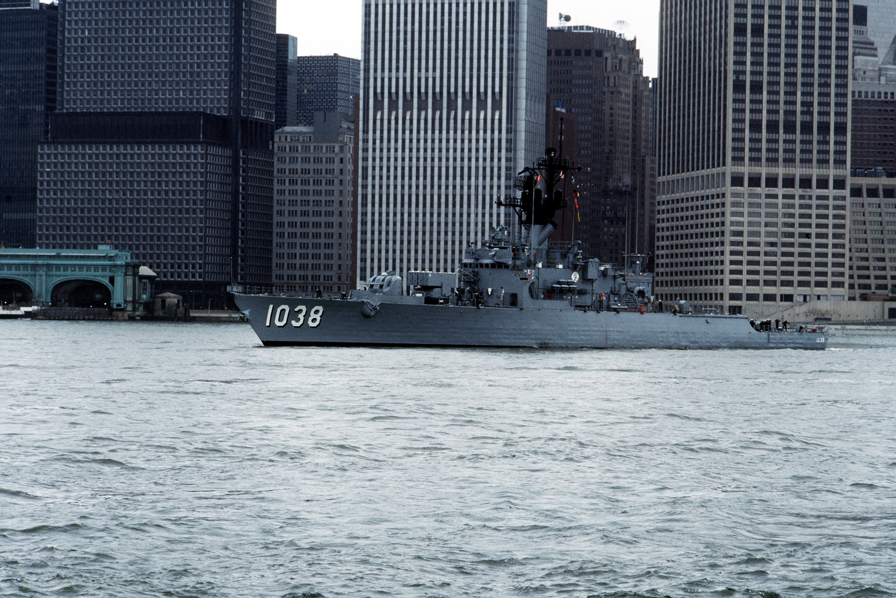 The frigate USS MCCLOY (FF 1038) steams along the city skyline during Fleet Week.